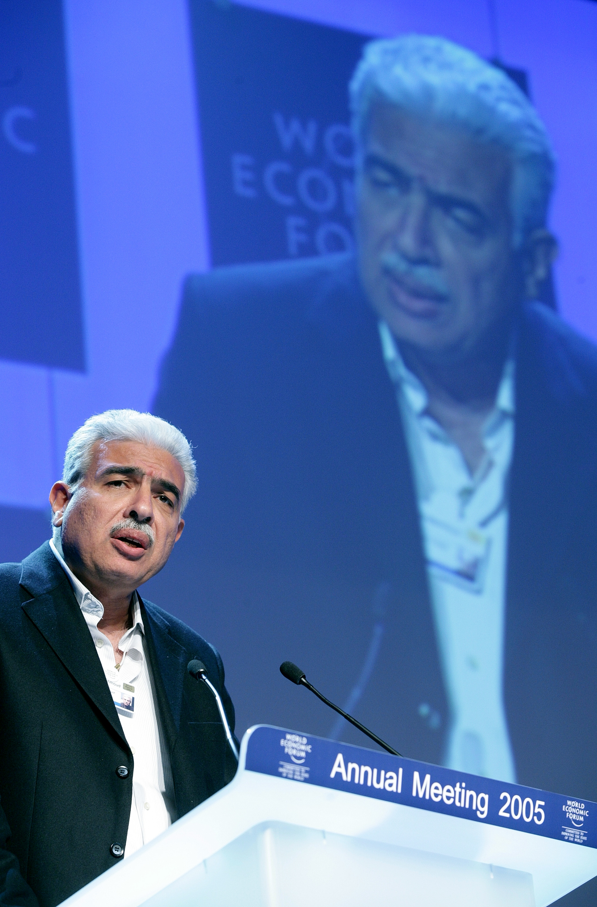 DAVOS/SWITZERLAND, 27JAN05 - Ahmed Mahmoud Nazif, Prime Minister of Egypt, captured during his Special Message at the Annual Meeting 2005 of the World Economic Forum in Davos, Switzerland, January 26, 2005. Copyright by World Economic Forum by Andy Mettler